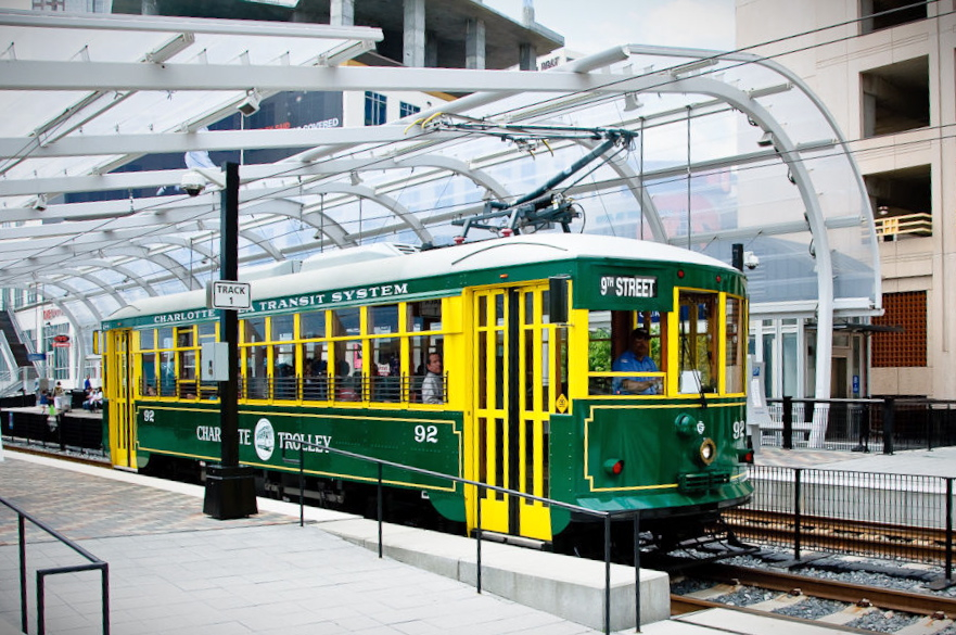 Charlotte Trolley car 92 is a replica Birney streetcar built by the Gomaco Trolley Company.